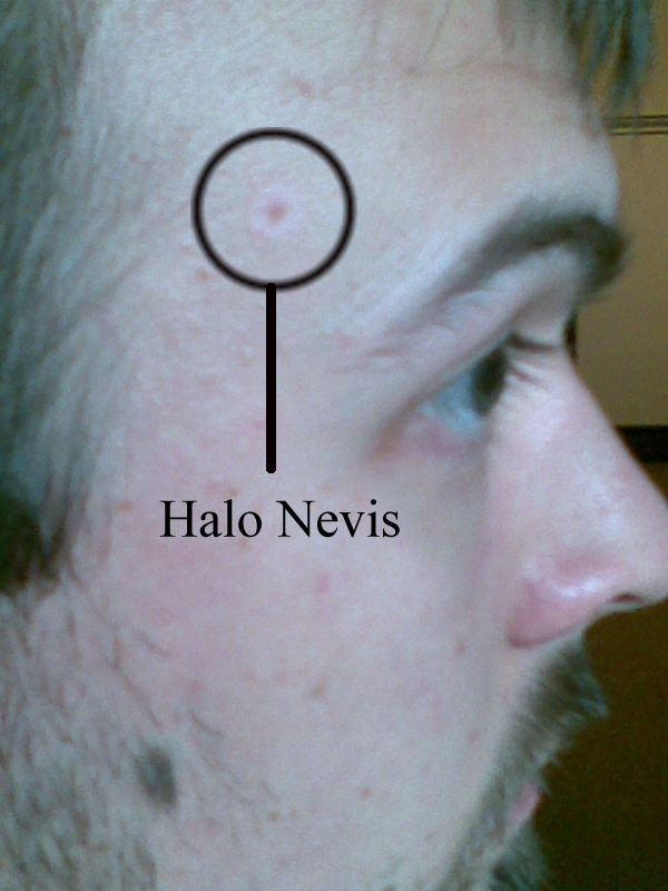 An example of a Halo Nevus (mole with white 'halo' around it), with a text to highlight the area.